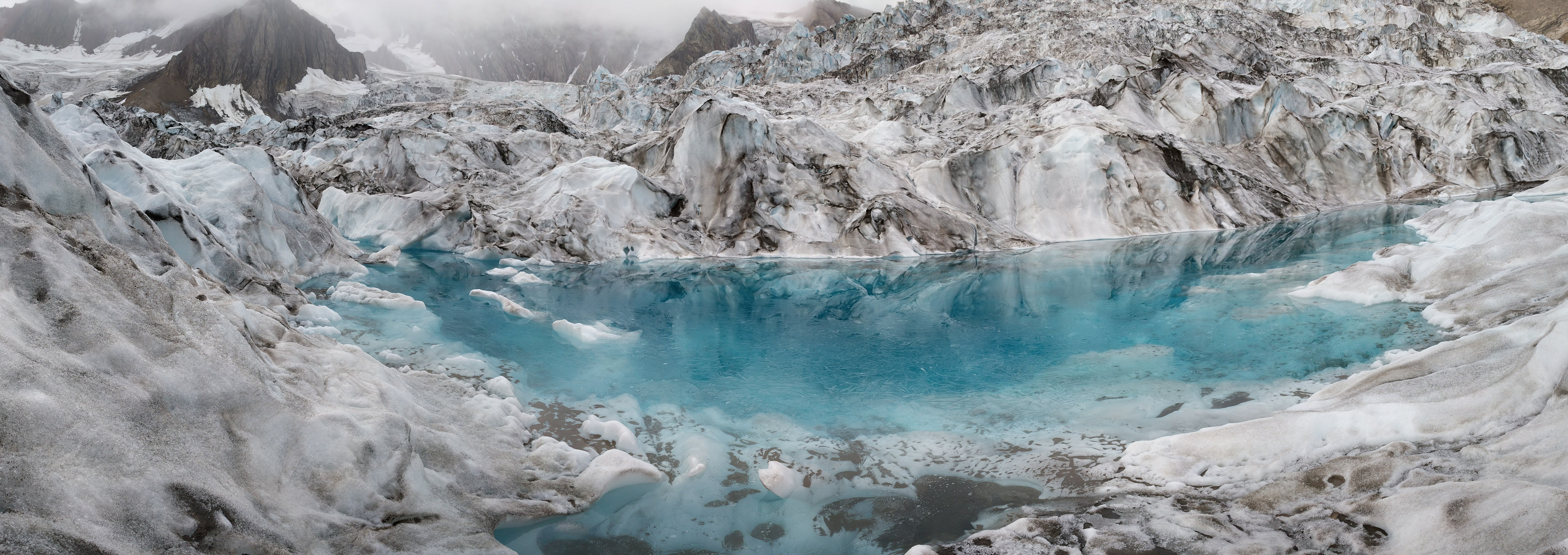 A panorama of Trimble Glacier, Alaska